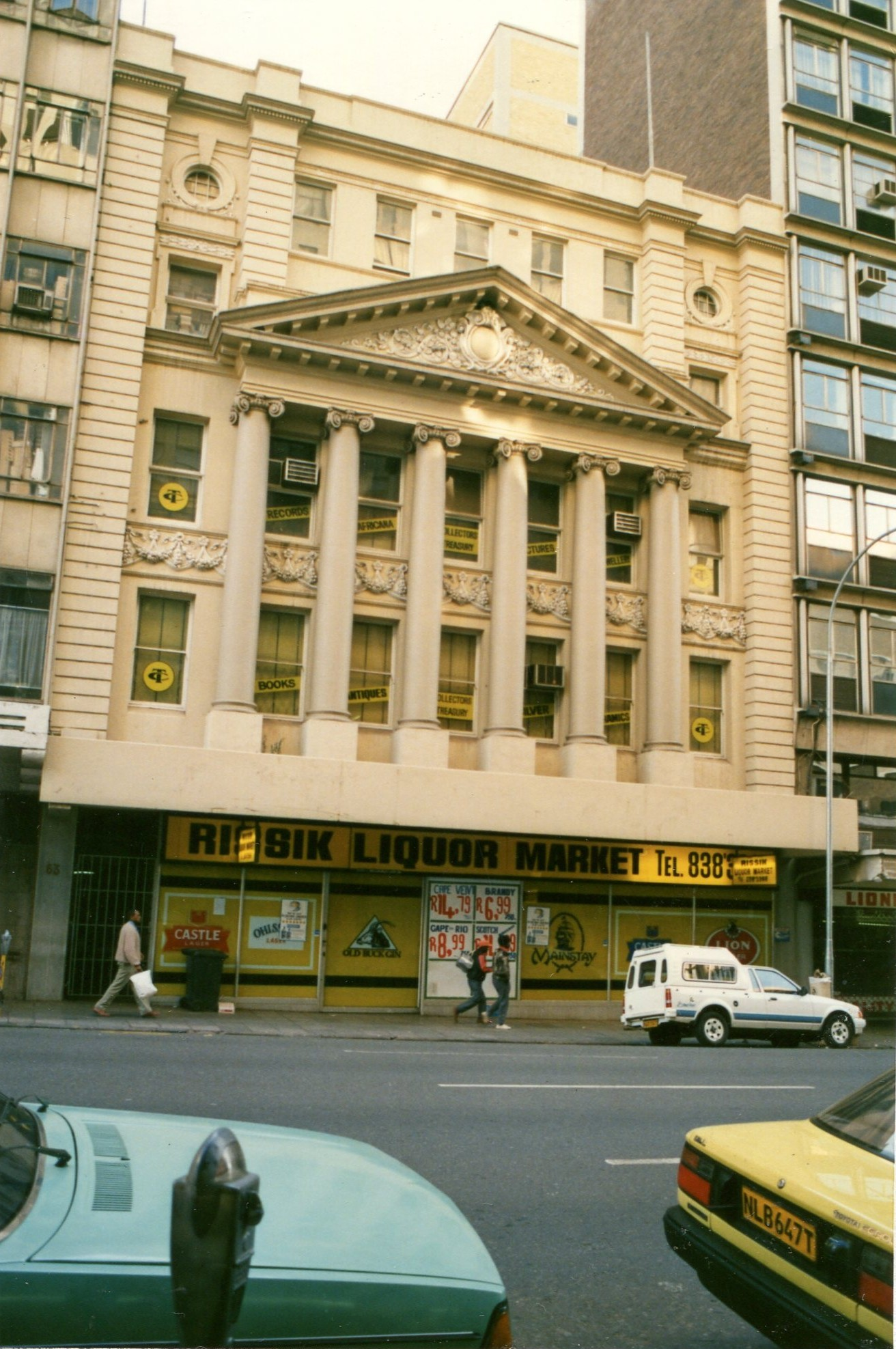 The trades Hall in the city of Johannesburg. This part of the Jouburgpedia project with JHF.